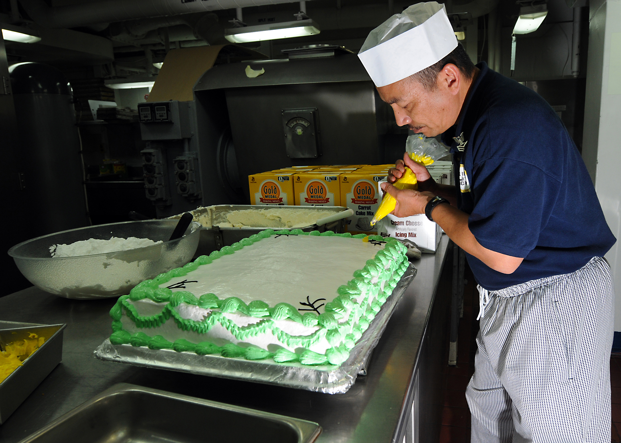 PACIFIC OCEAN (May 28,2010) Culinary Specialist 1st Class Lamberto Vitug decorates a birthday cake for Sailors celebrating May birthdays aboard the amphibious assault ship USS Peleliu (LHA 5). Peleliu is on a scheduled 2010 western Pacific deployment. (U.S. Navy photo by Mass Communication Specialist 2nd Class Michael Russell/Released)